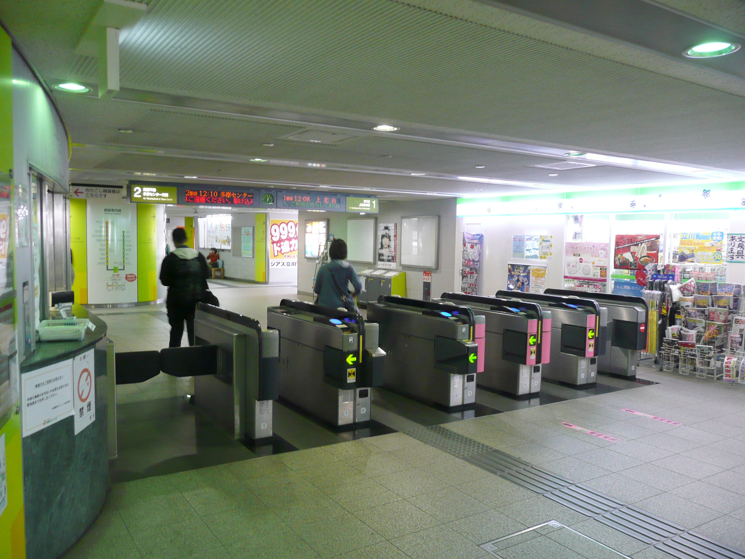 Ticket gate of Tachikawa-Minami Station